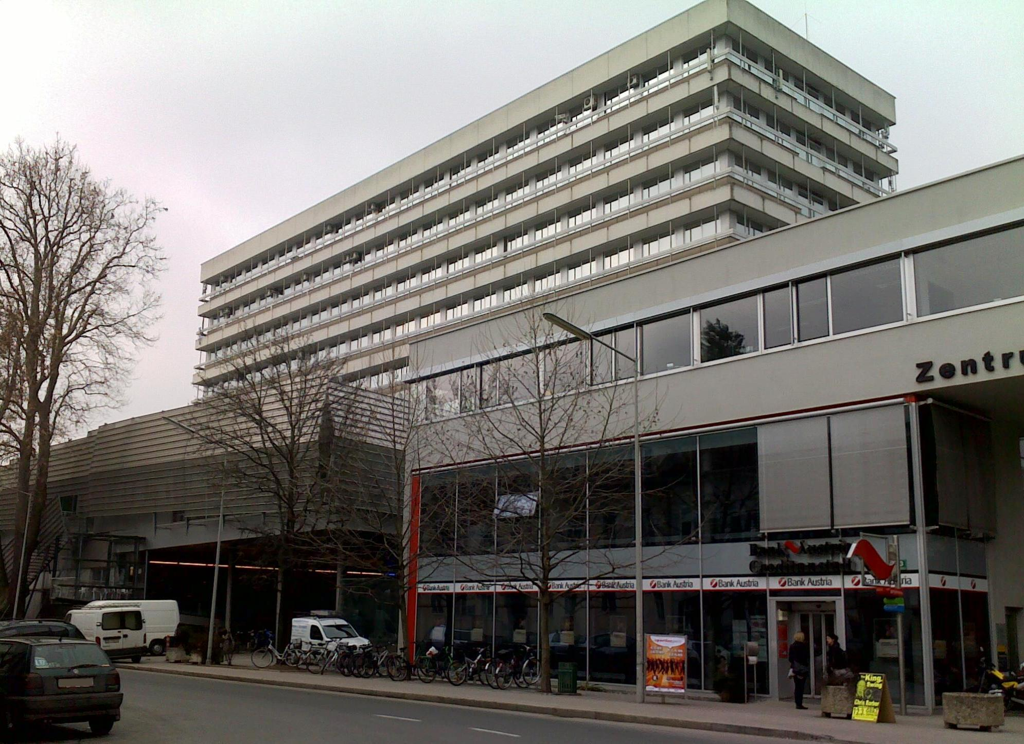 Main building of the Medical University of Graz